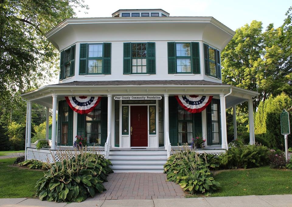 Currier Octagon House Almont, MI